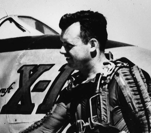 Test plot Arthur "Kit" Murray by Bell X-1A. This image was cropped from the original to obtain a closeup for the Arthur Murray wiki article.